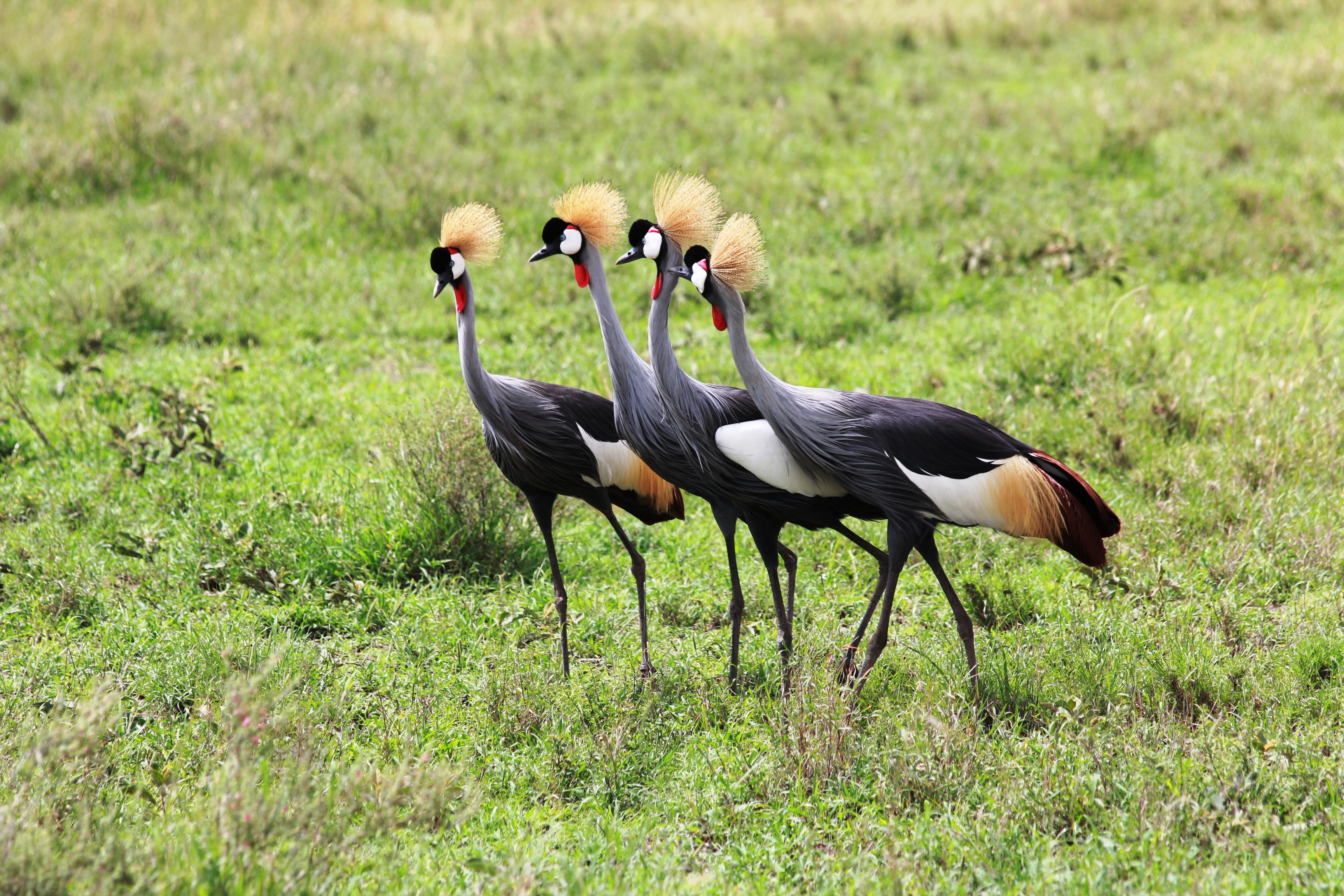 Four Crested Cranes. It is a subspecies of the Grey Crowned Crane which occurs from eastern Democratic Republic of the Congo through Uganda and Kenya to eastern South Africa. The Grey Crowned Crane is the national bird of Uganda and features in the country's flag and coat of arms